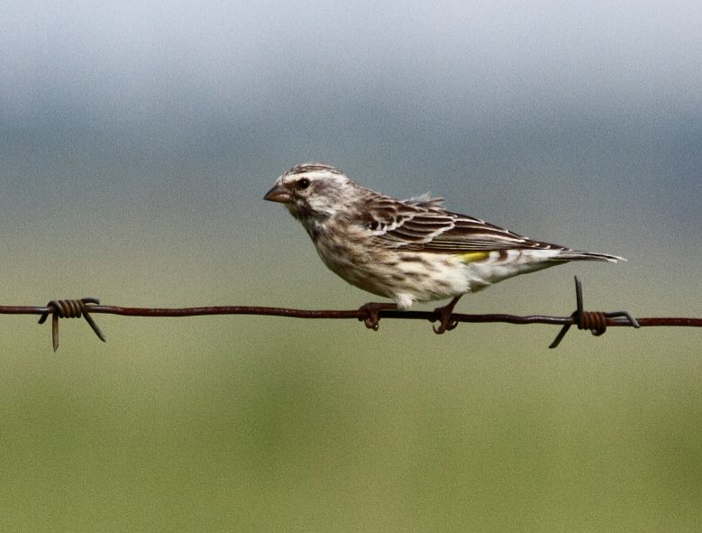 Canary Black-throated (Crithagra atrogularis); near Wasbank, KwaZulu-Natal